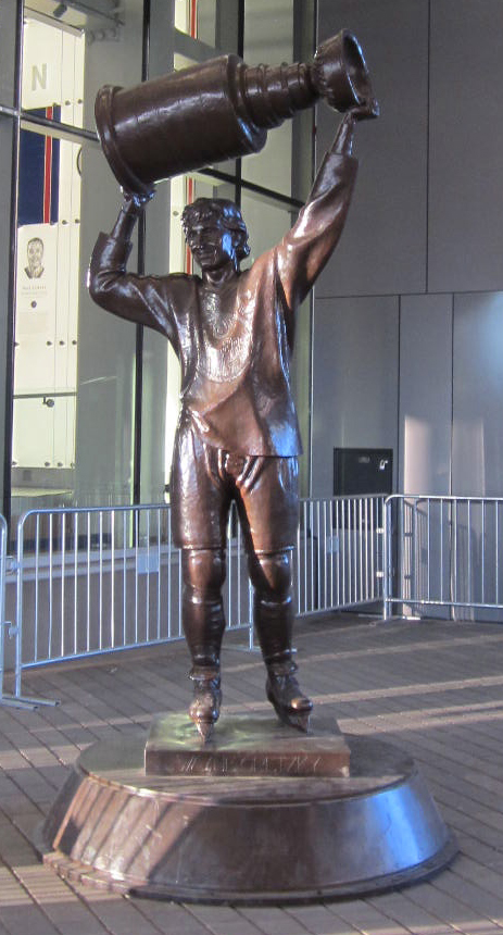 Statue of Wayne Gretzky in front of Rogers Place, in Edmonton, Canada.